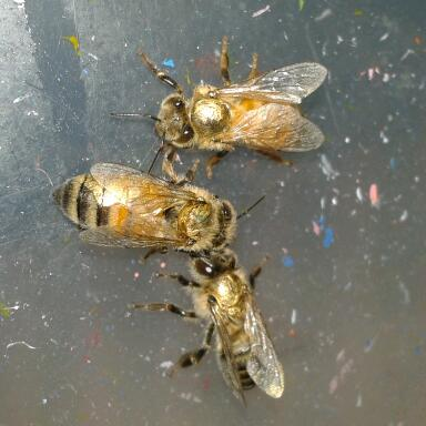 Bees were marked after hatching with a dot of colour on their thorax to be able to identify their age.